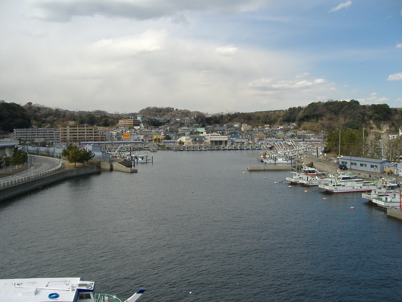 Shiba gyokou-port (Yokohama, Japan)